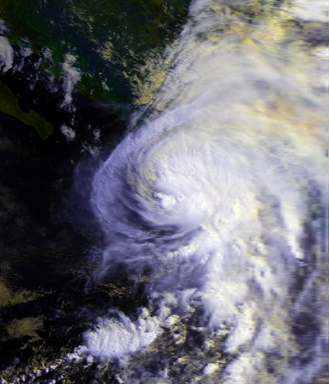 Hurricane Eugene on July 25 at approximately 1512 UTC. This image was produced from data from NOAA-10, provided by NOAA.